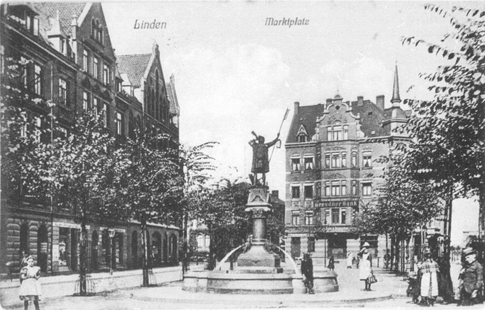 Lindener Marktplatz in Hannover, Germany.